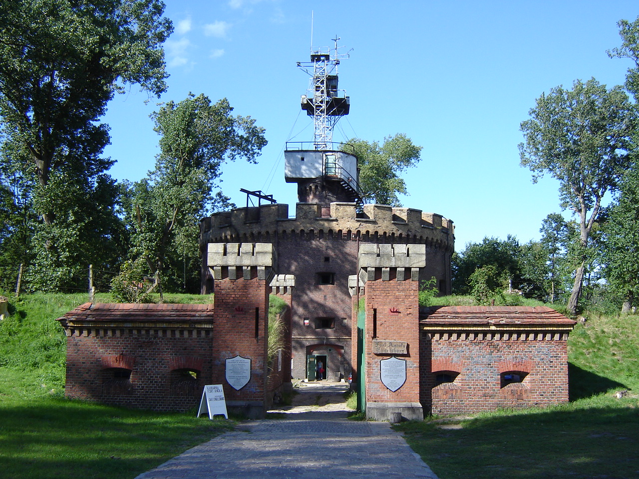 Fort Anioła in Świnoujście, Poland